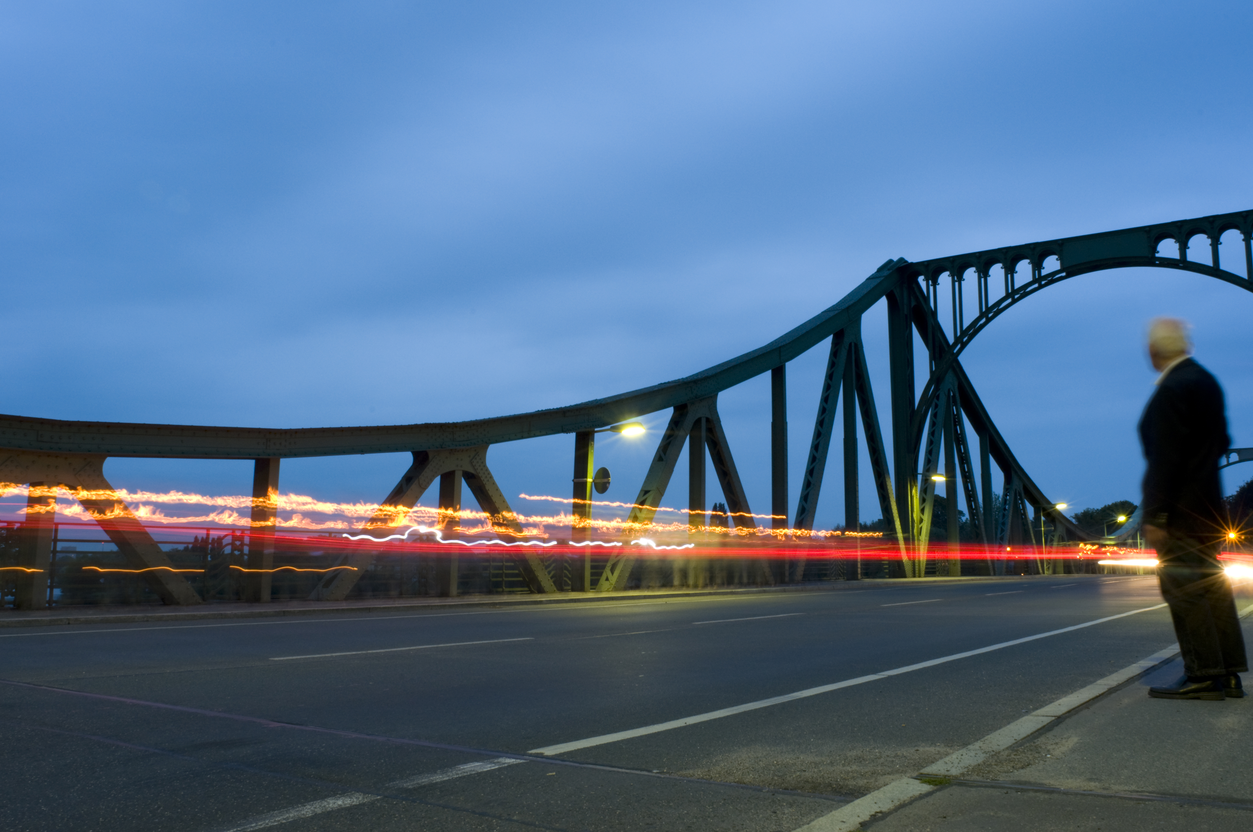 Car, torch, and candle lights streak over the Glienicke Bridge in Berlin on August 13, 2010: The 49th anniversary of the construction of the Berlin wall.